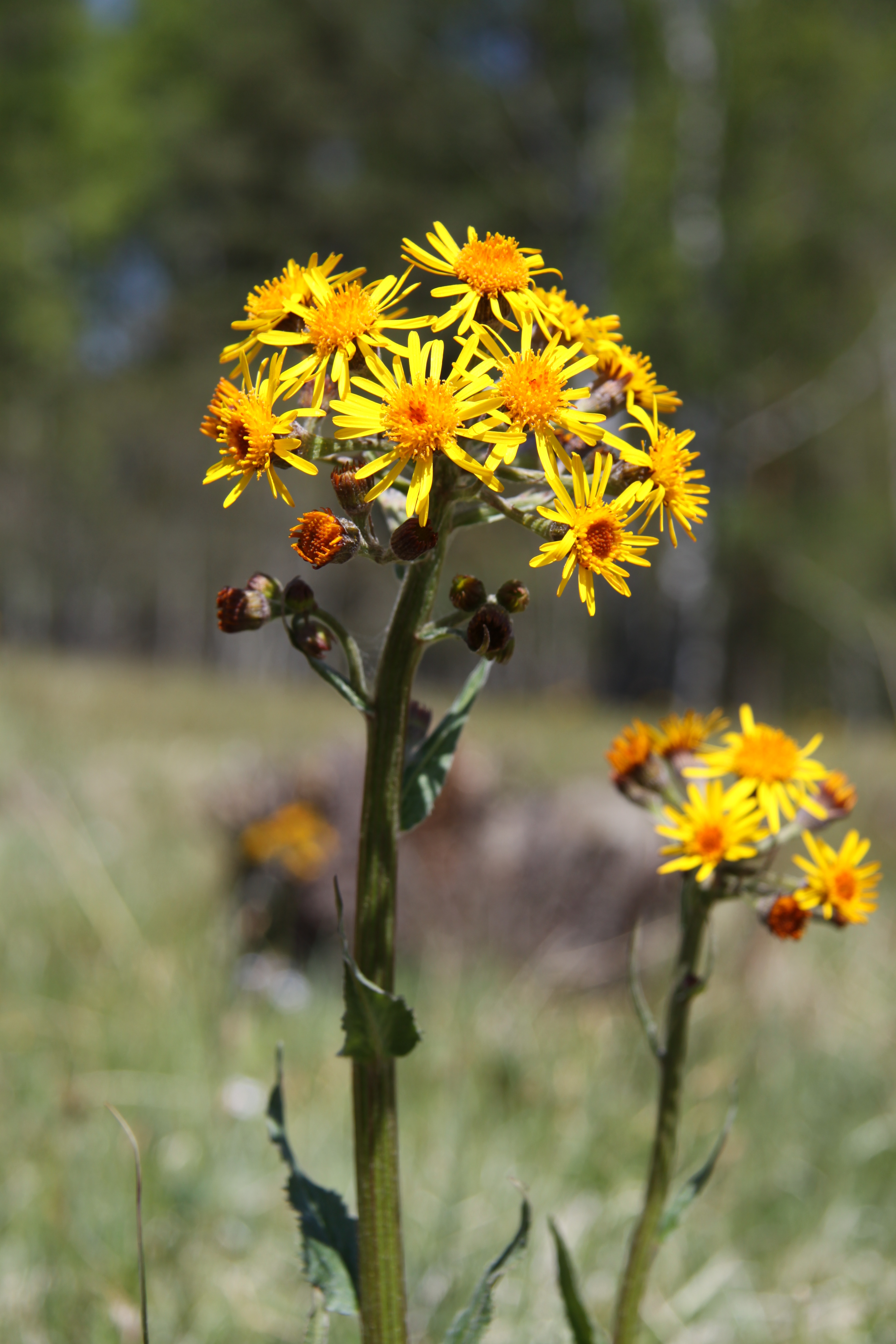 Tephroseris crispa. Natural monument Podhájí near Vacov village in Prachatice District, Czech Republic - Google Maps - Google Earth